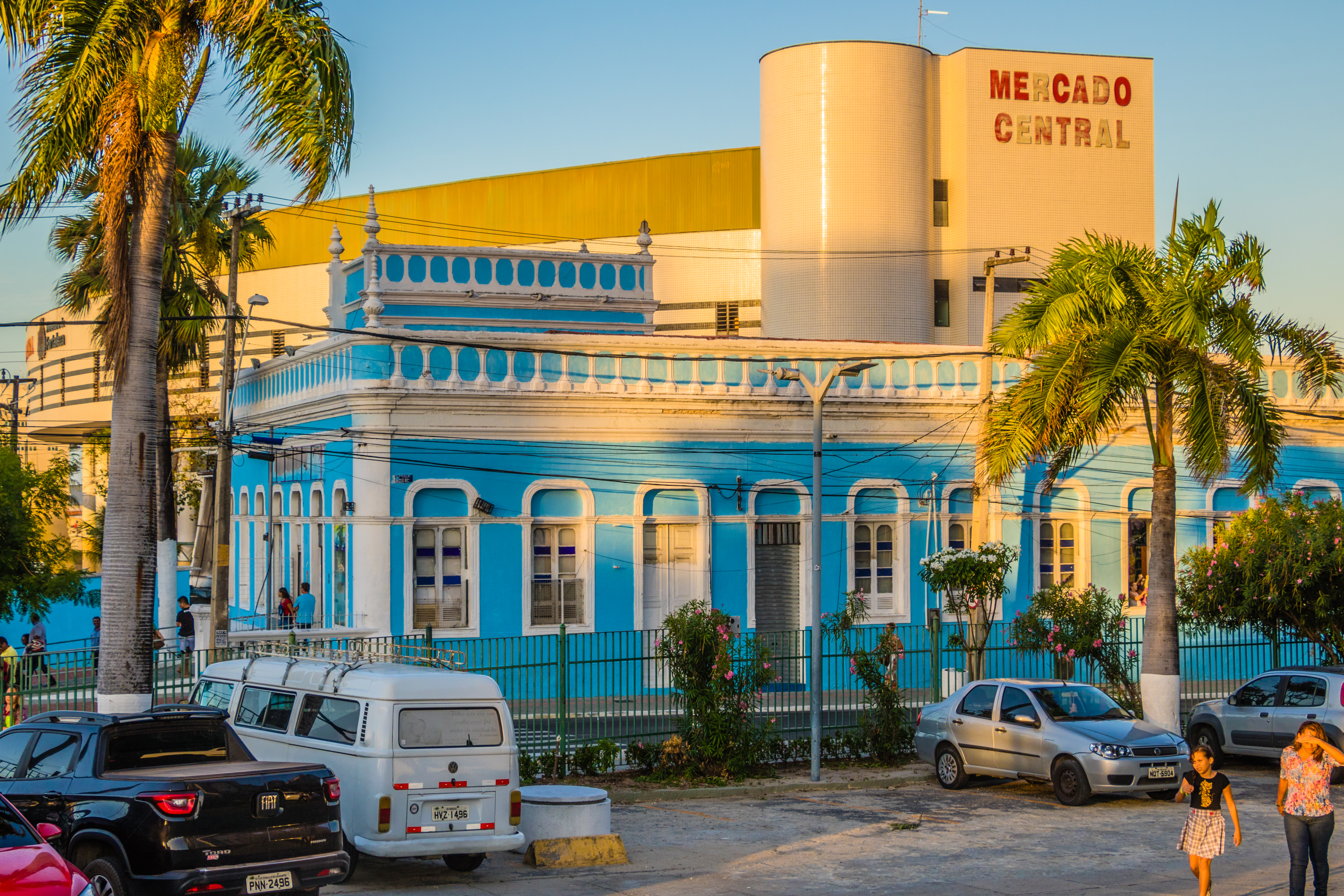 Mercado Central de Fortaleza, Ceará, Brazil.